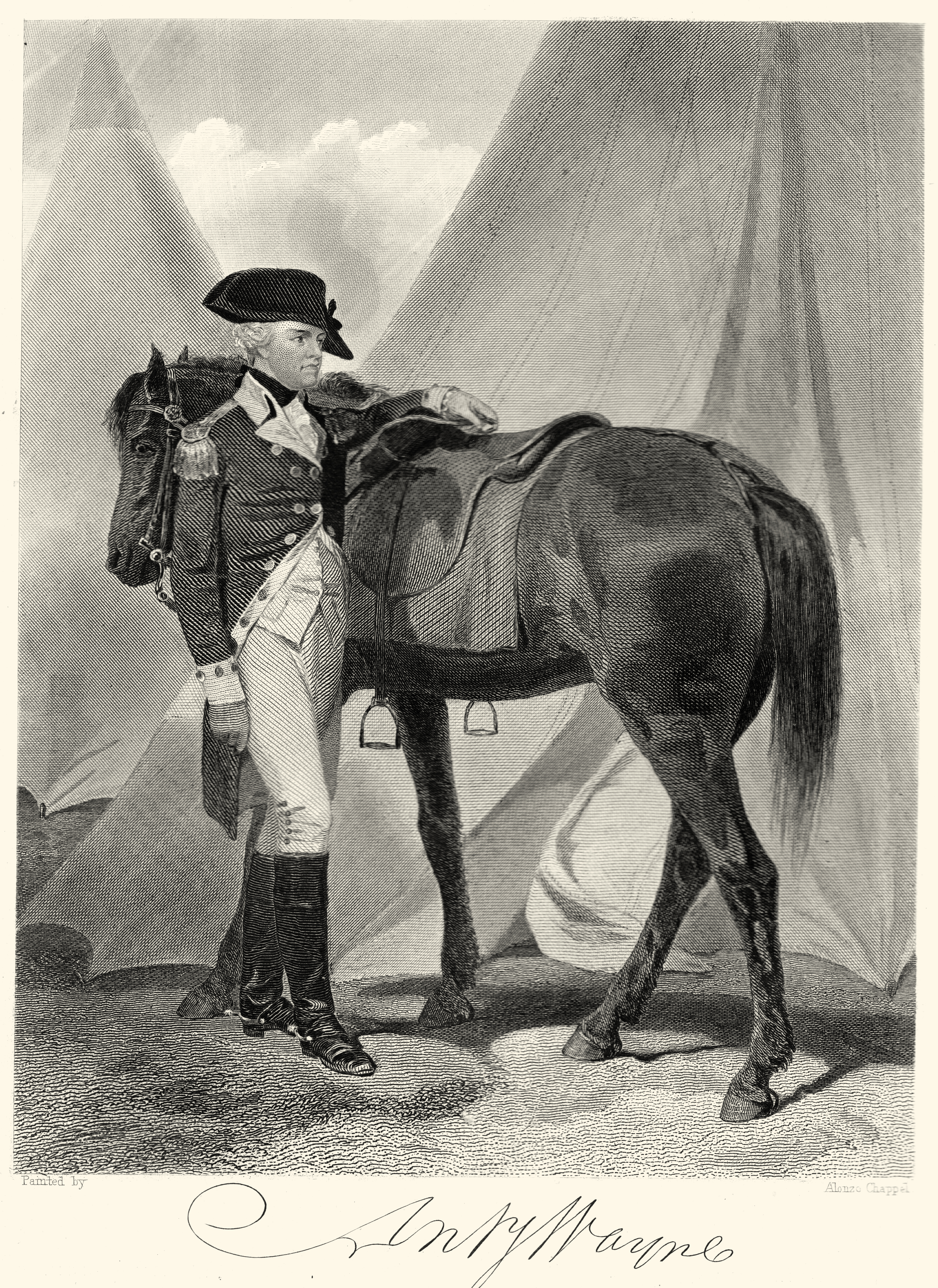 Portrait of Gen. Anthony Wayne (Steel engraving with signature)